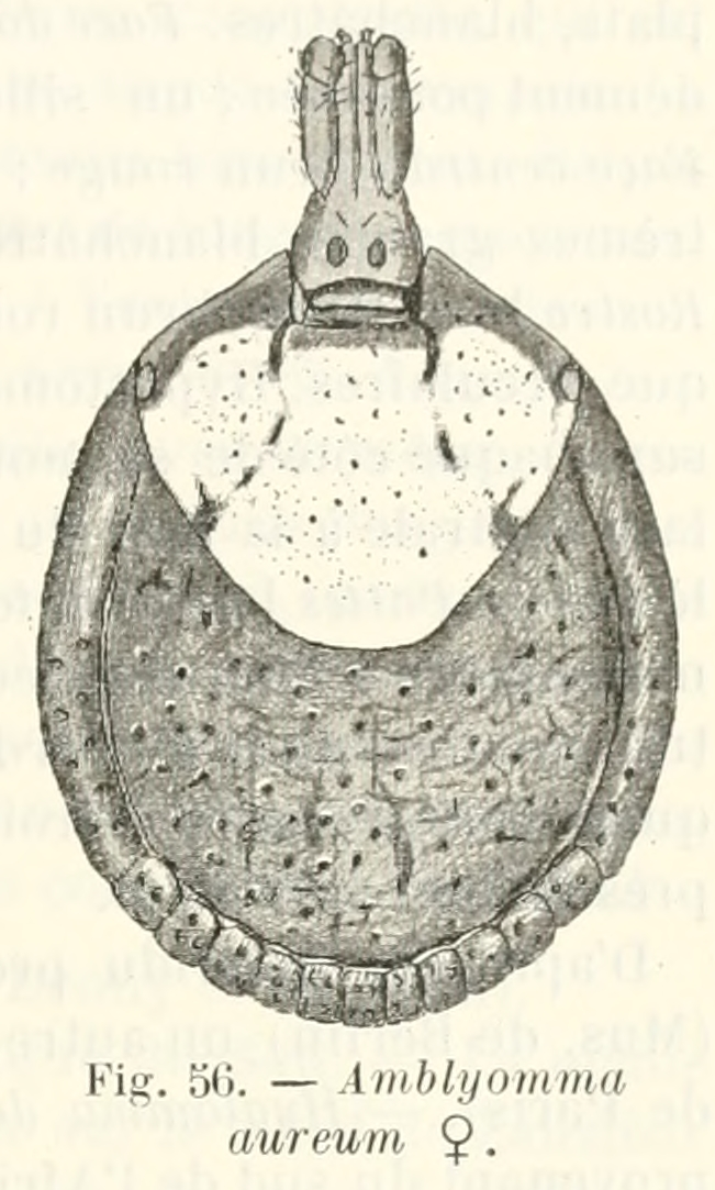 Amblyomma aureum Neumann, 1899; female from original description